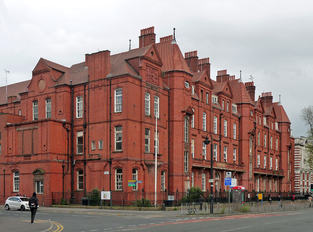 Photograph of the Royal Eye Hospital, Manchester, England